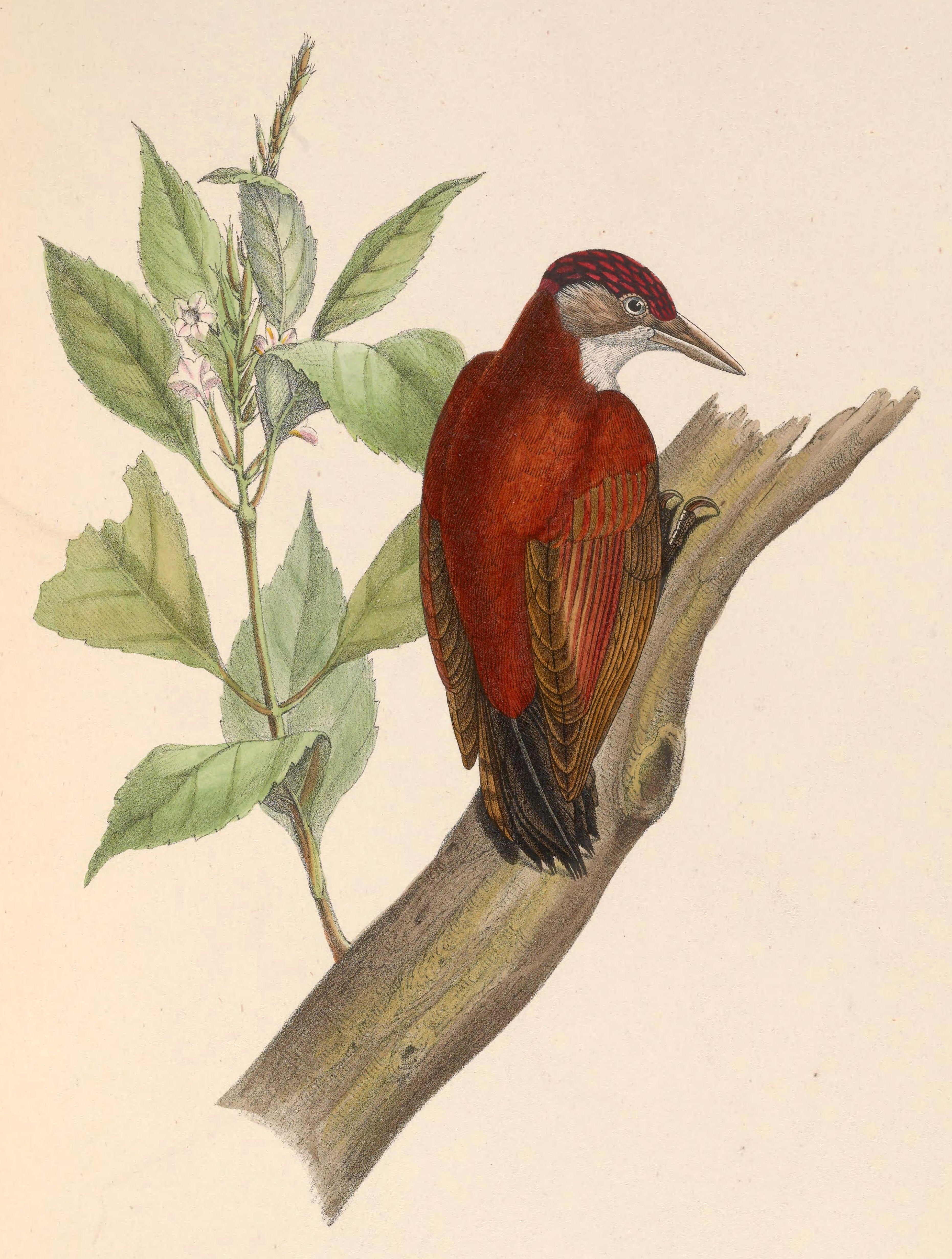 Picus callonotus = Veniliornis callonotus (Scarlet-backed Woodpecker)